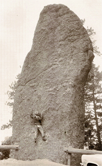 Pete Williamson on the Thimble in the mid 1960s. Photo by Pat Ament